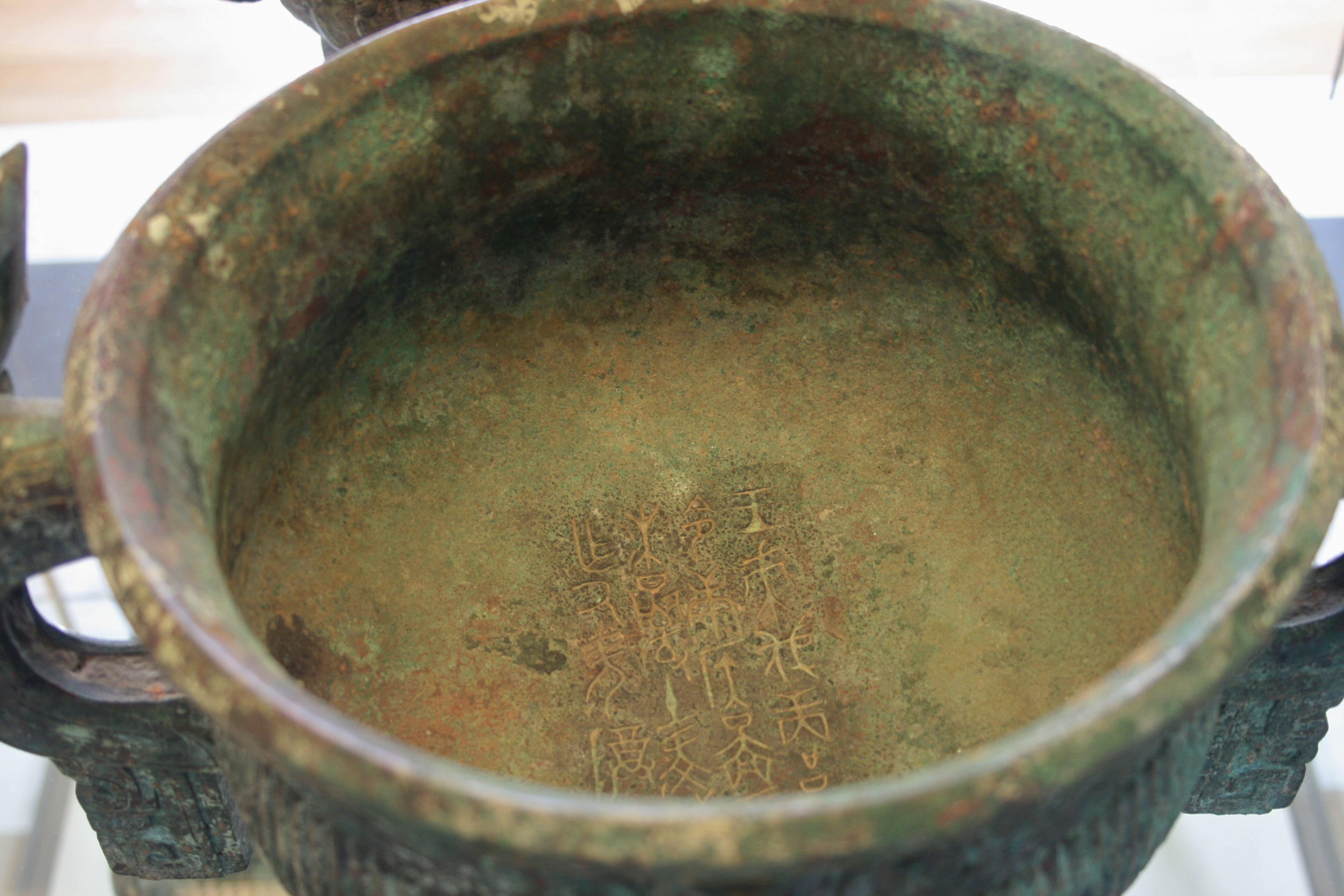 Zhou ritual vessel. Object 23 of 100. In the British Museum.